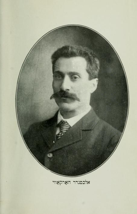 Portrait of Alexander Harkavy